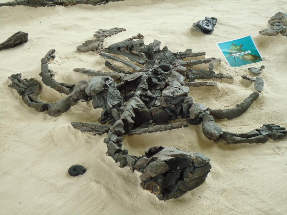 Fossil of the sea turtle Desmatochelys padillai, in the Centro de Investigaciones Paleontológicas in Villa de Leyva, Colombia.